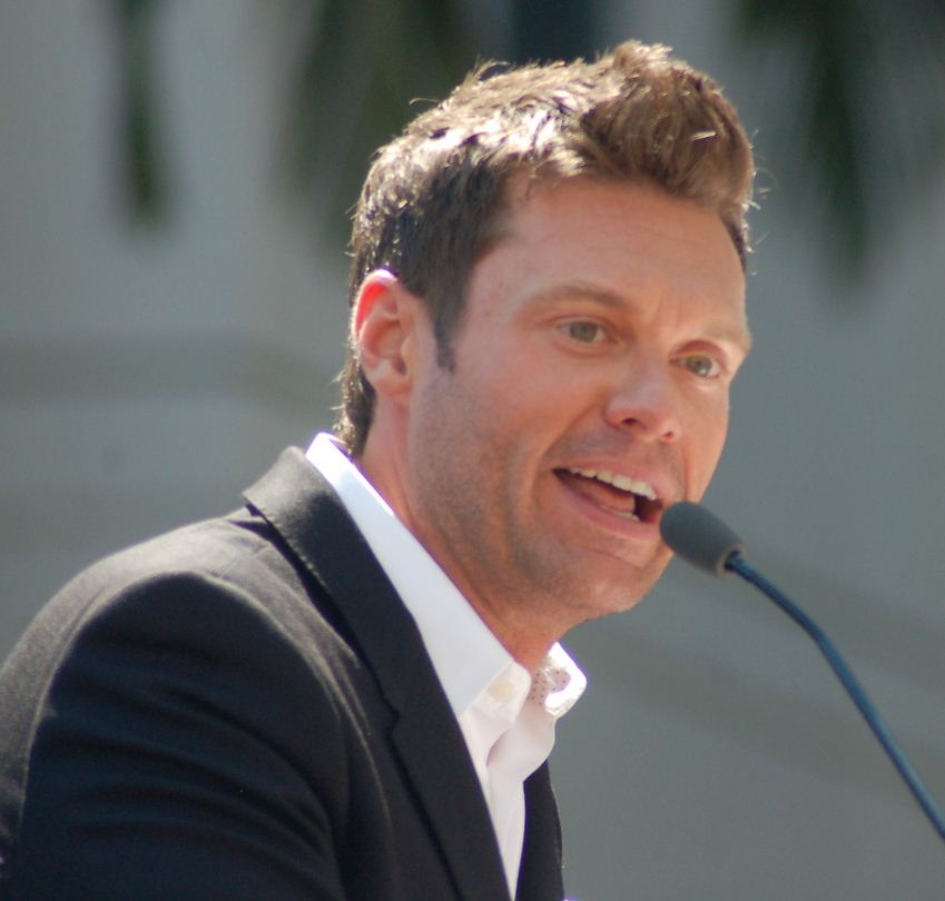 Ryan Seacrest at a ceremony for Ellen DeGeneres to receive a star on the Hollywood Walk of Fame.